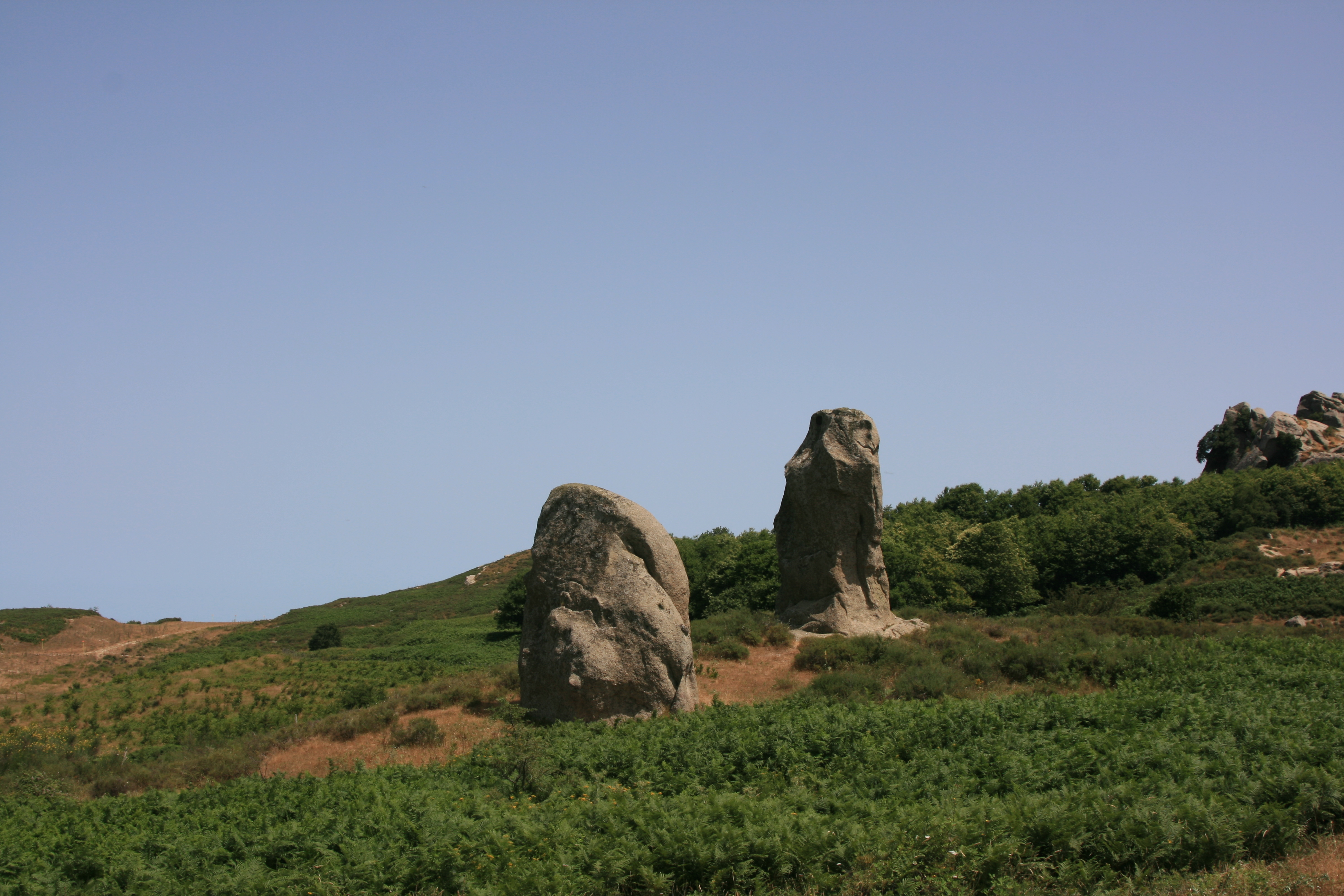 These are not megaliths but natural rock formations.